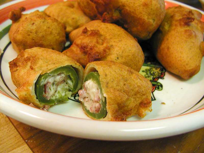 Deep-fried andouille stuffed jalapenos based on a recipe by Emeril.